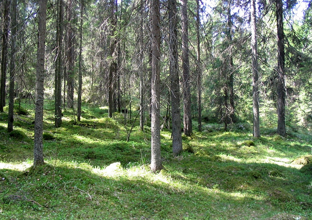 At some places the forest was straight from a faery tale. Trees are Picea abies. Liesjärvi national park, Tammela, Finland, May 2005